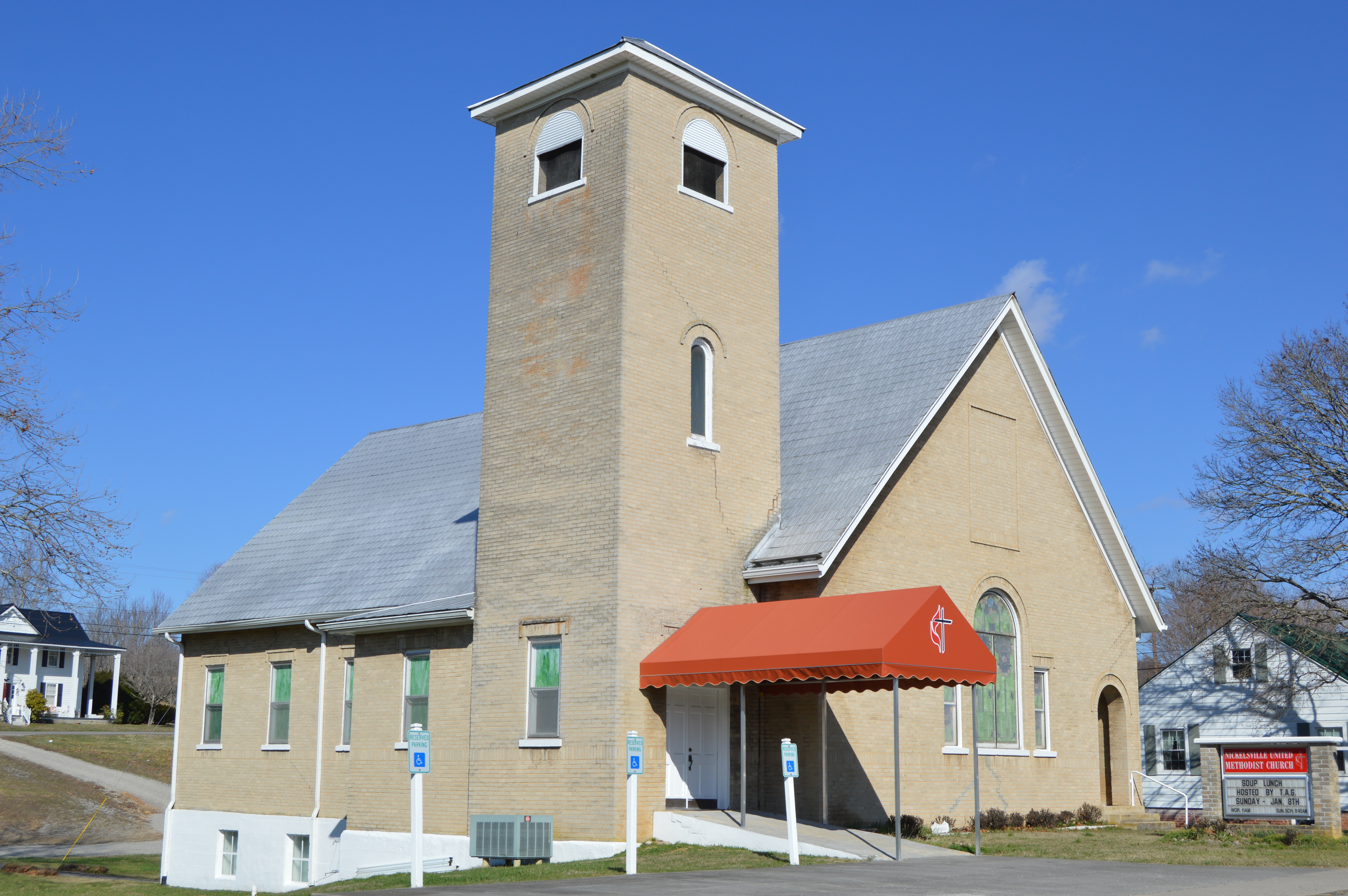 Front and western side of Nickelsville United Methodist Church, located at 11675 Main Street (State Route 71) in Nickelsville, Virginia, United States.